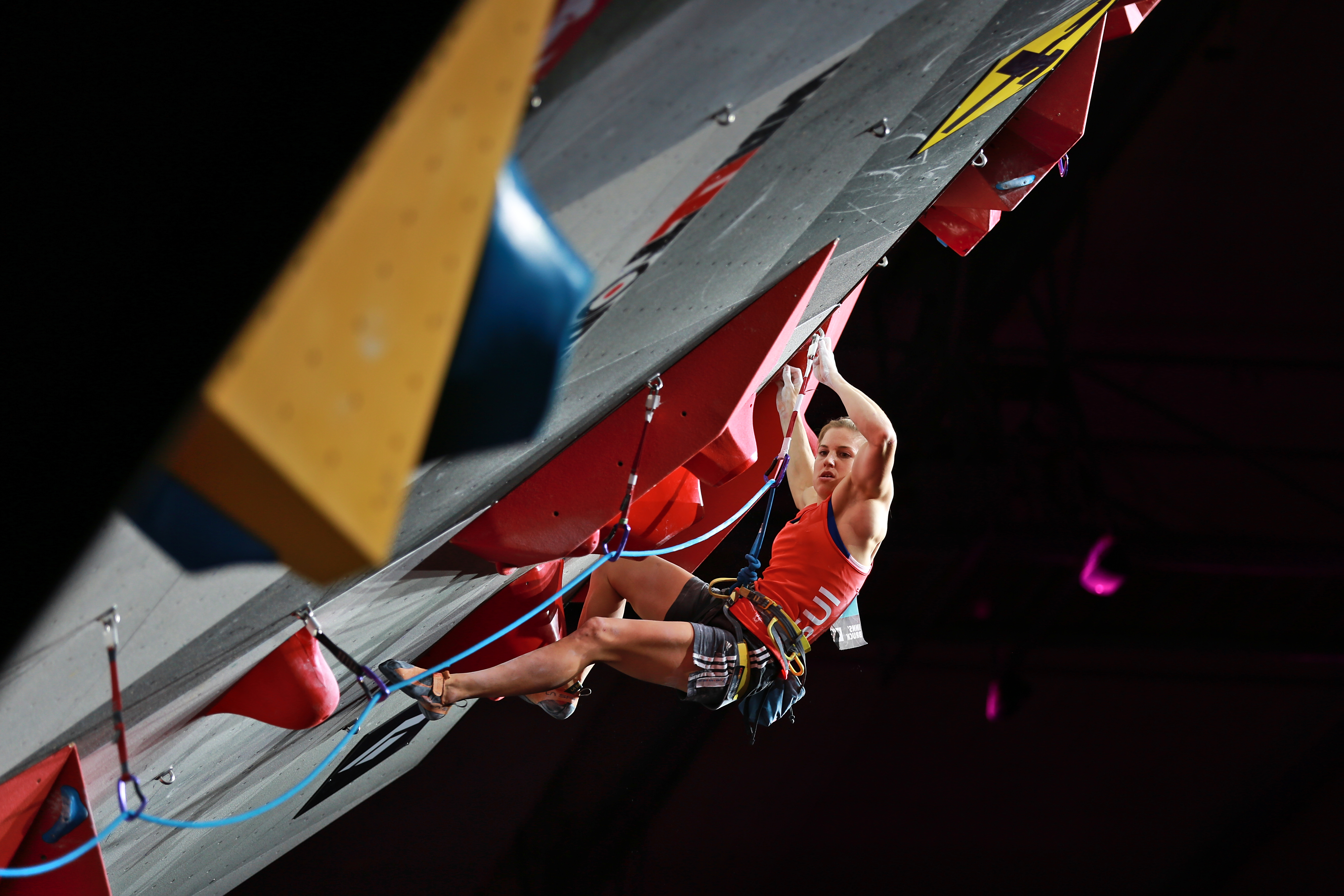 Petra Klingler in the combined finale of the 2018 IFSC Climbing World Championships in Innsbruck, Tyrol, Austria.